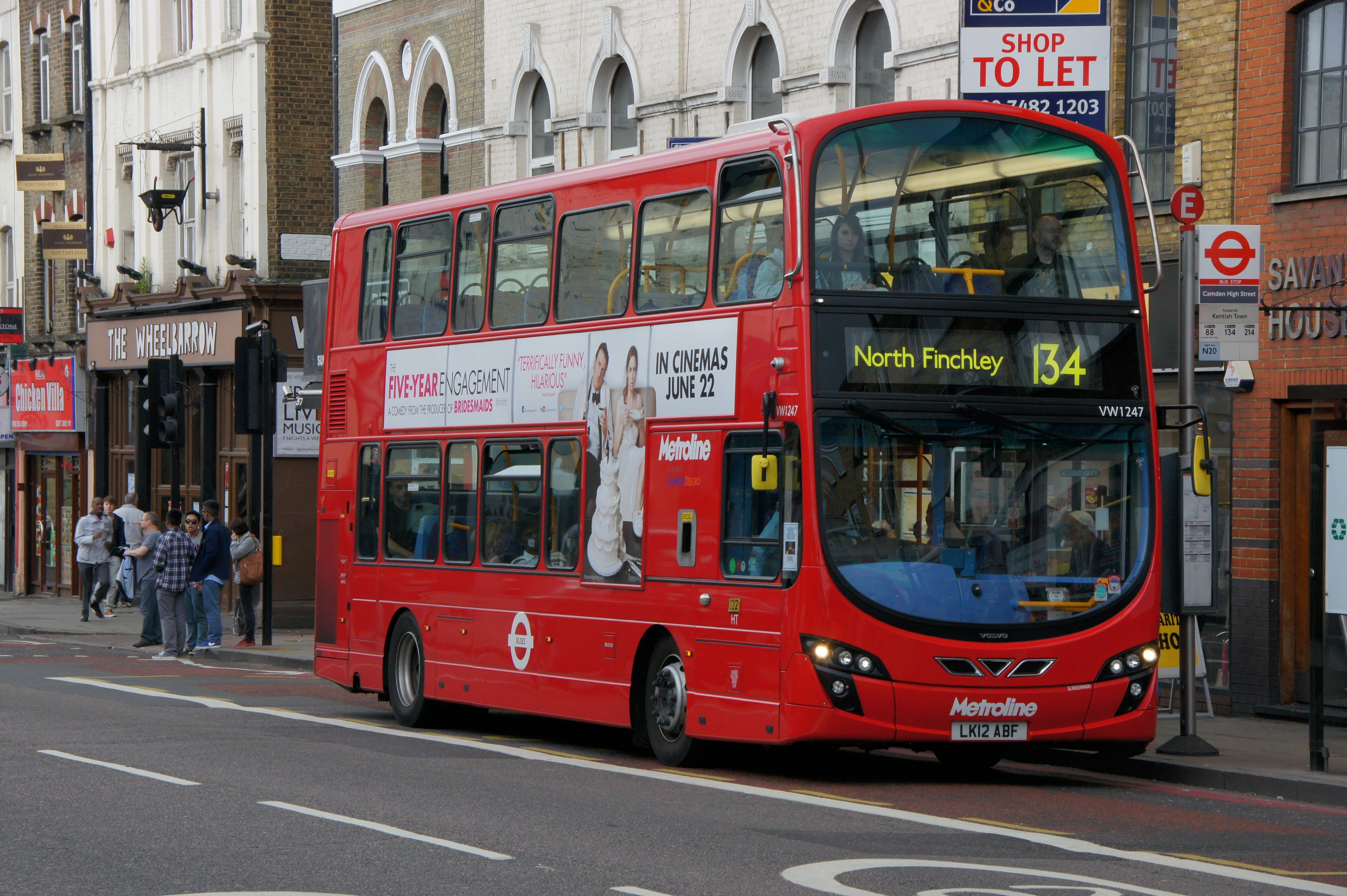 Various London Transport/TFL buses. Haven't a clue what they are, any help accepted!